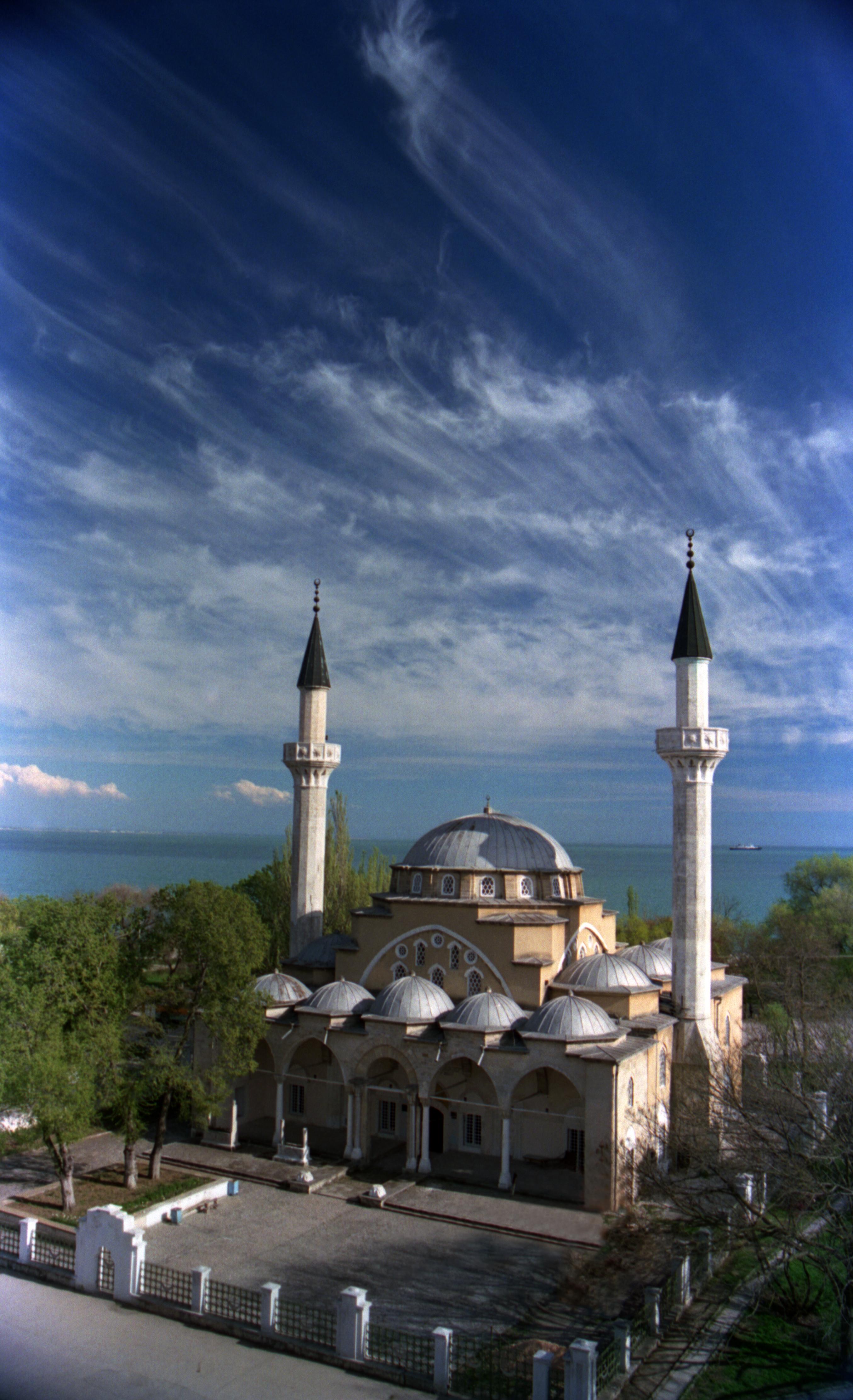 Juma-Jami Mosque (Han Cami) built in 1552—1564 by the chief Ottoman architect Mimar Sinan (architectural monument of national significance №260). Yevpatoria, Crimea, Ukraine